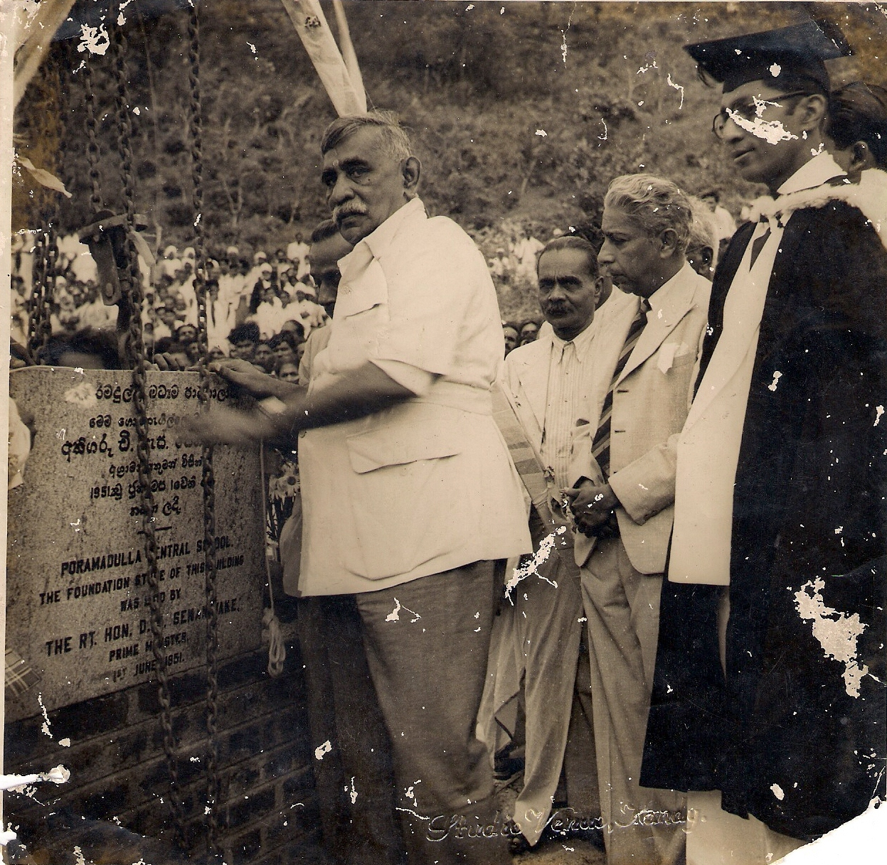 Rt.Hon Don Stephen Senanayaka Laying the Foundation Stone of Poramadulla Central College on 1st June 1951,with Mr P.E.G.Mendis (Principal) and Mr M.H.Covis Appuhamy of Kandy.